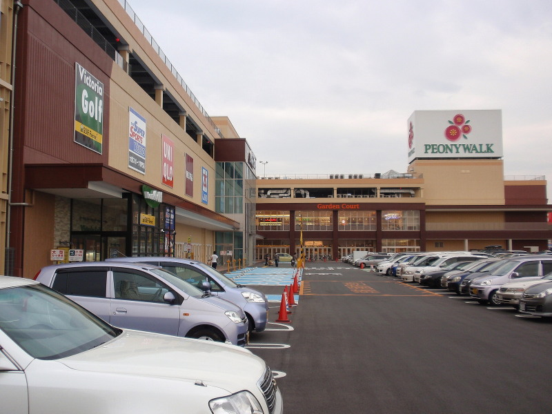 PEONY-WALK Higashimatsuyama Shopping Center (mall & apita buildings), Higashimatsuyama-city, Saitama-pref, Japan